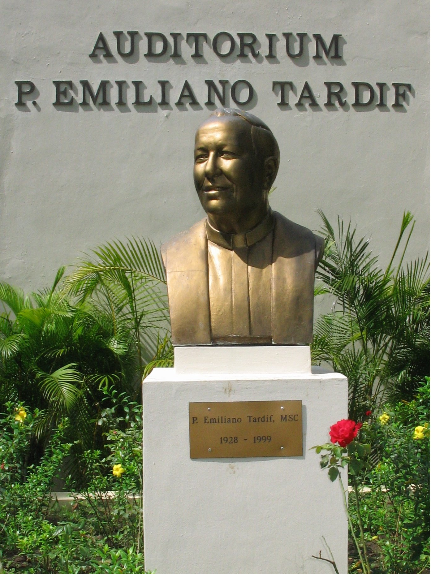 Father Emiliano Tardif were buried in the latest Crypt of the risen Christ in the School of Evangelism John Paul II, in Santo Domingo.